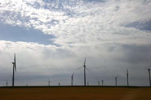 Probably the Judith Gap Wind Farm south of Judith Gap, Montana.